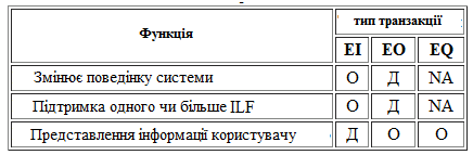 fghj